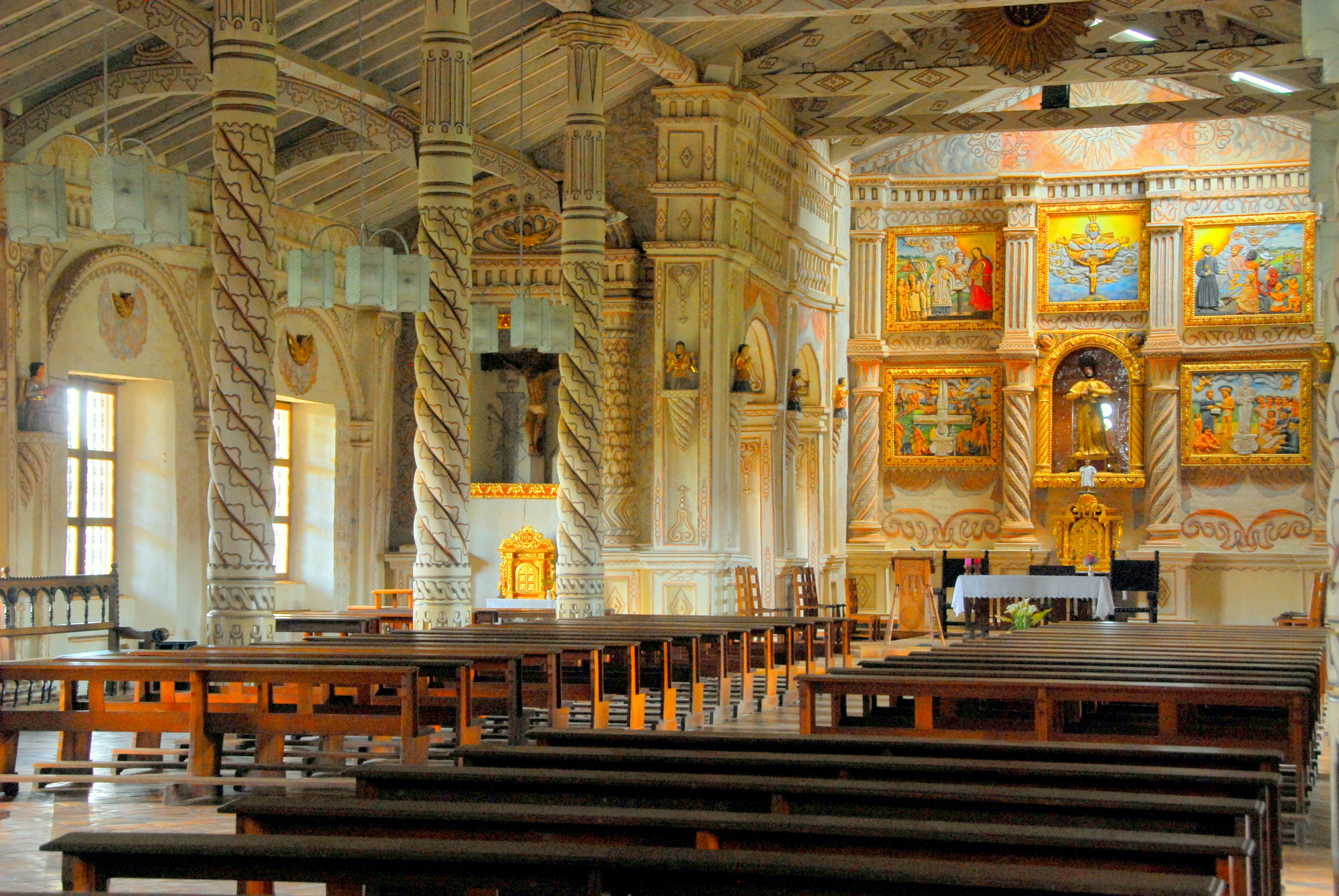 Interior of the church in San Javier, Ñuflo de Chávez, Santa Cruz, Bolivia. Part of the Jesuit Missions of the Chiquitos World Heritage Site.